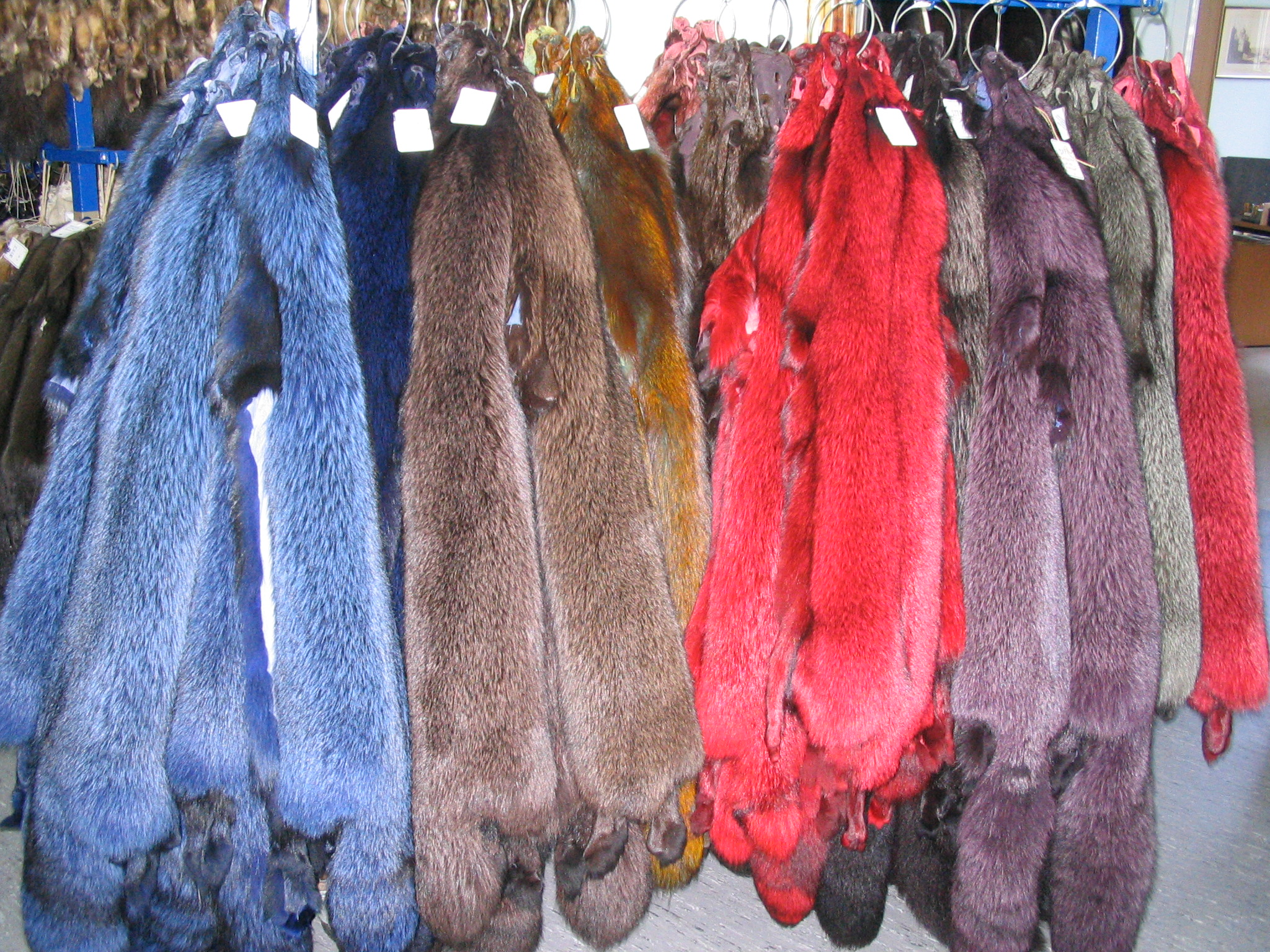 Dyed bluefrost fox fur skins